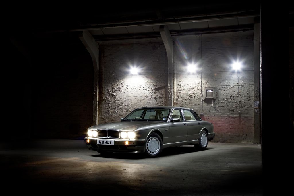 The ‘R’ badge adorns the flagship performance models in the Jaguar range. It denotes cars that are effortlessly thrilling, technically state-of-the-art and dramatically designed.